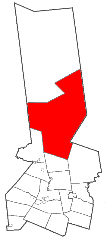 Map of Herkimer County highlighting Ohio